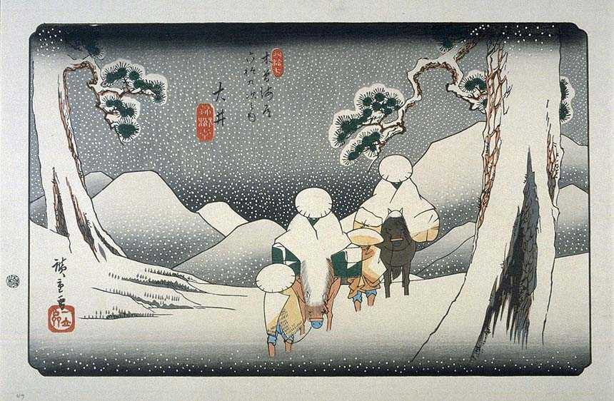 Oi on the Kisokaido, ukiyo-e prints by Hiroshige